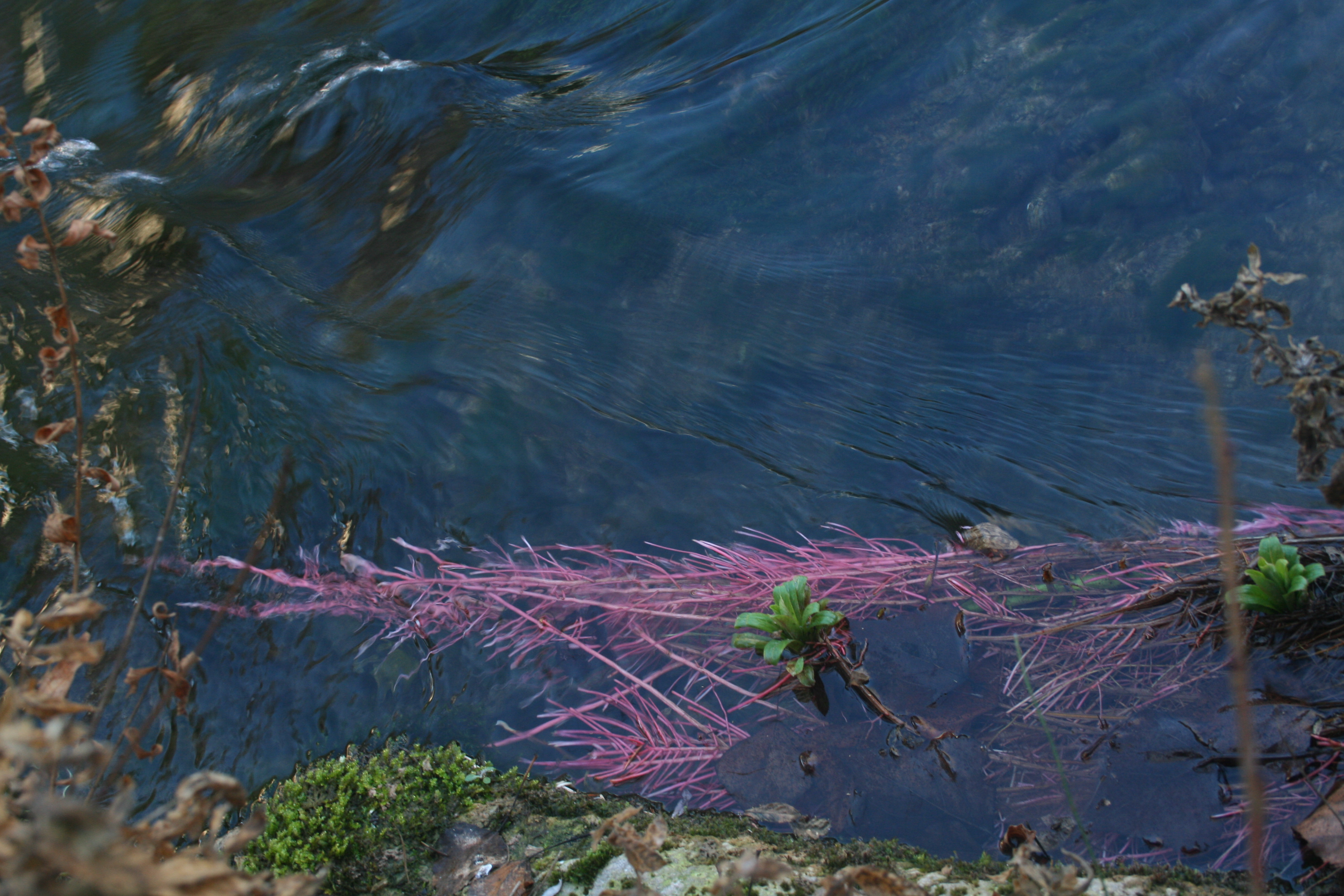 Pink seaweed (Rhodophyta), Manubles river, Bijuesca, Spain